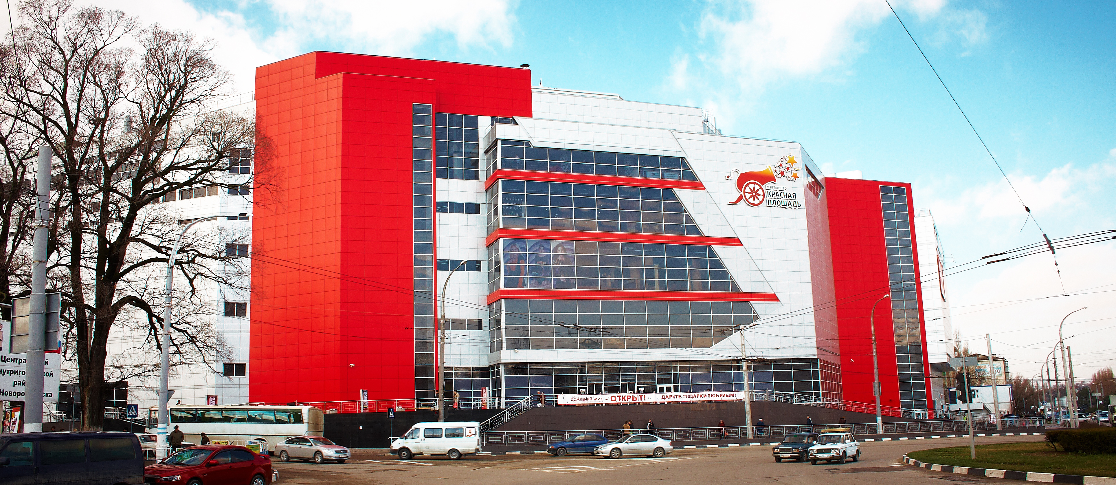 Novorossiysk